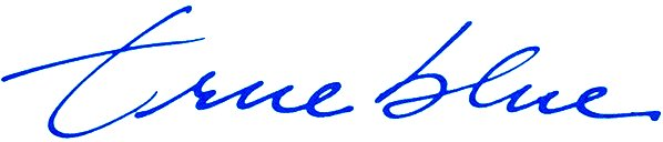 True Blue (nombre del álbum )